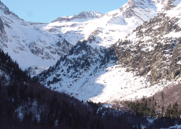 Mulleres Valley and Mt. Mulleres (Spain).